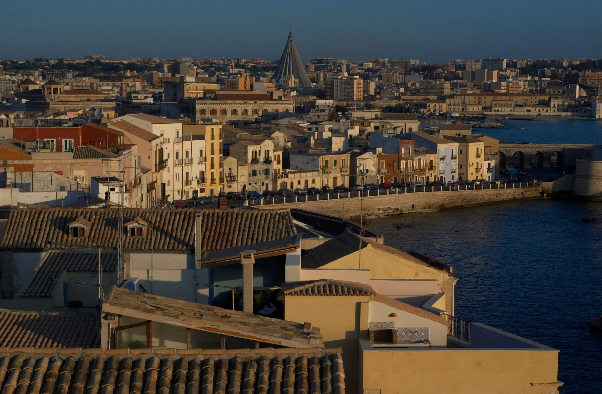 Siracusa sunrise.